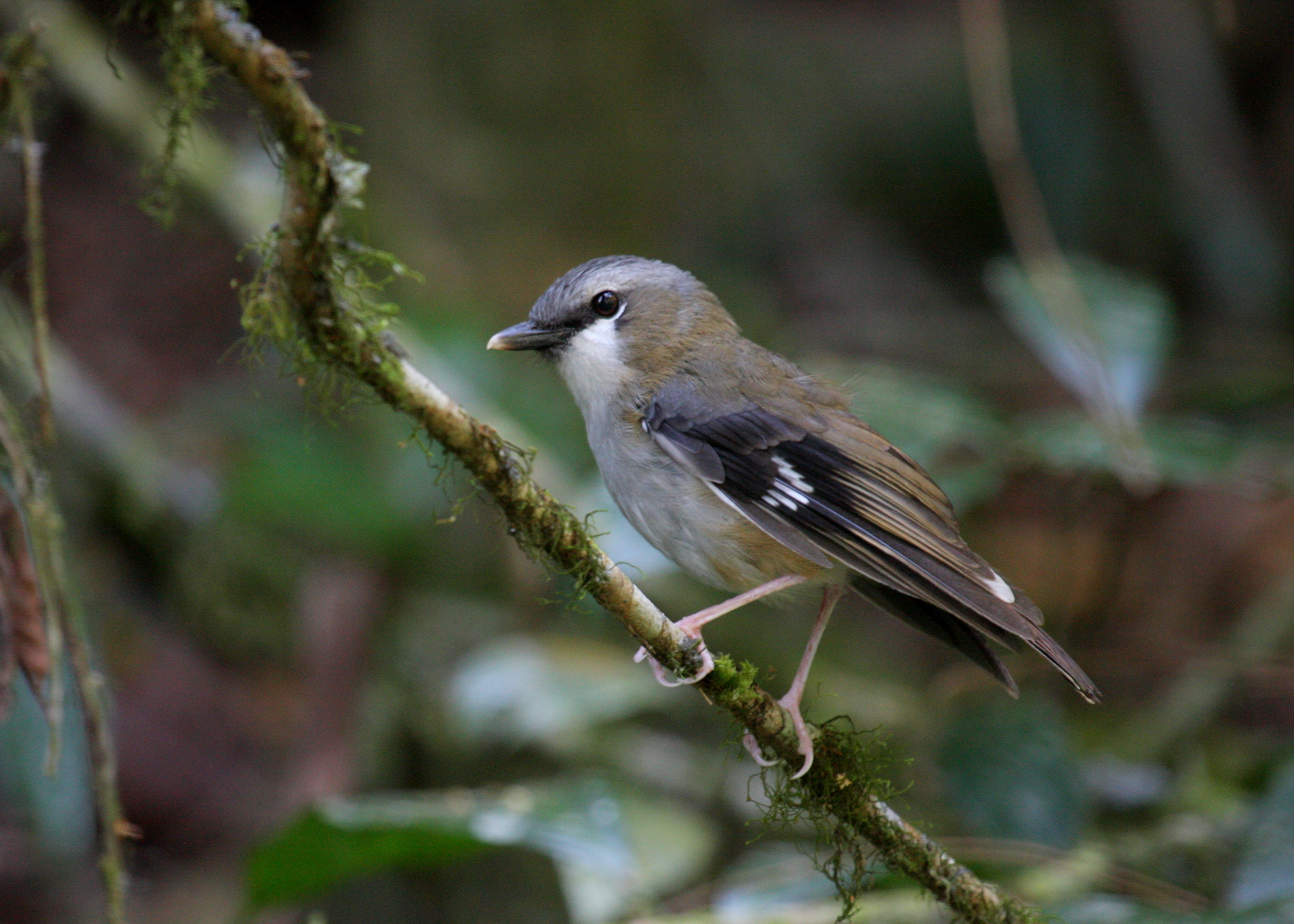 A Grey-headed Robin in Australia.